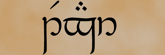 the word "tengwar" in J.R.R Tolkien's tengwar script, Quenya orthography; wide format for the German Wiktionary